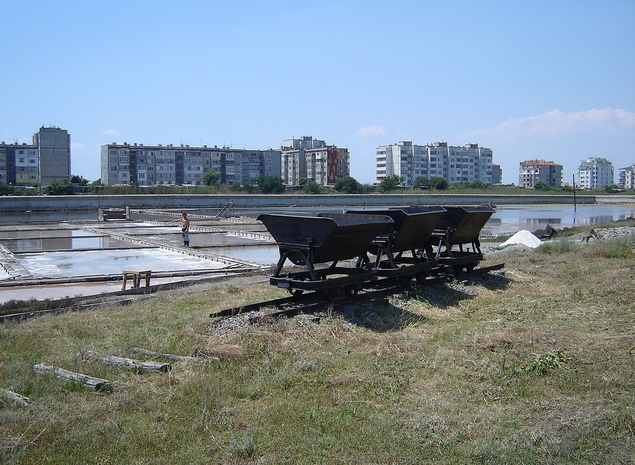 Pomorie salt works, salt evaporation ponds in Pomorie, Bulgaria, in the background the town